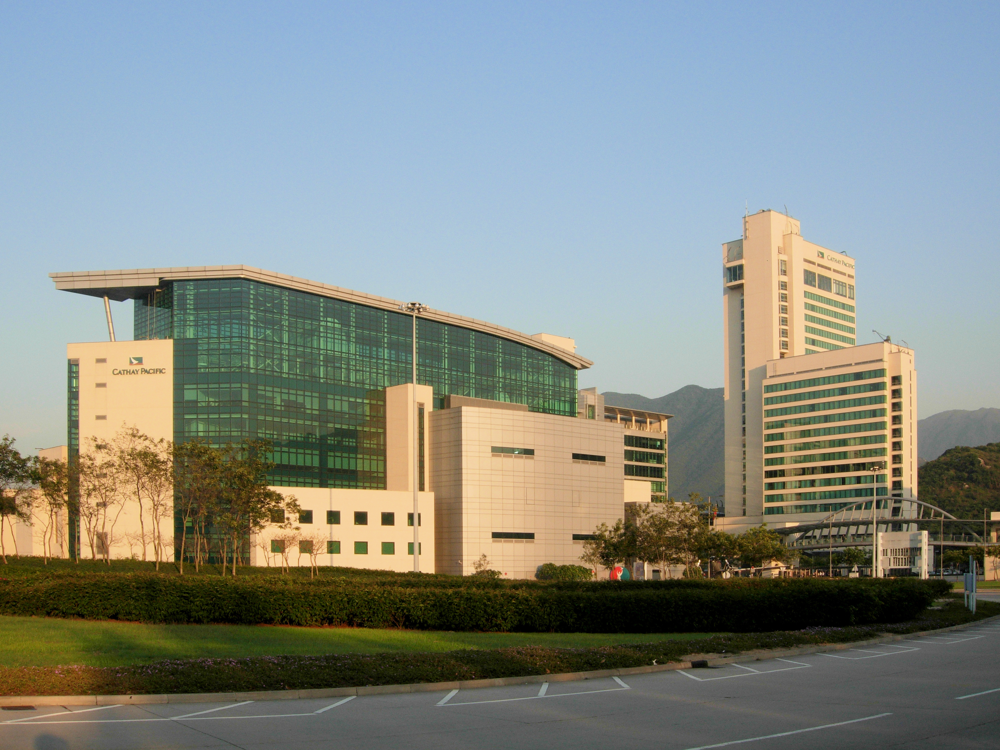 Cathay City, headquarters of Cathay Pacific, located on the grounds of Hong Kong International Airport 中文（香港）: 國泰航空在香港國際機場的總部—國泰城